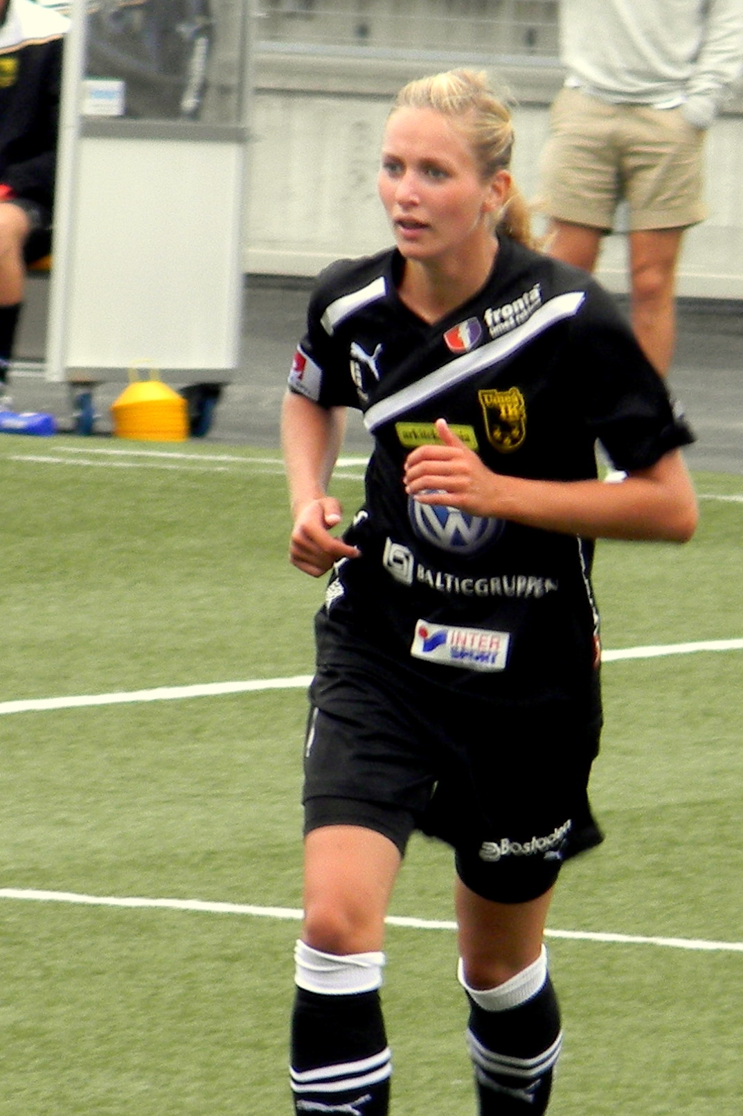 Emmelie Konradsson, a swedish player from Umeå IK